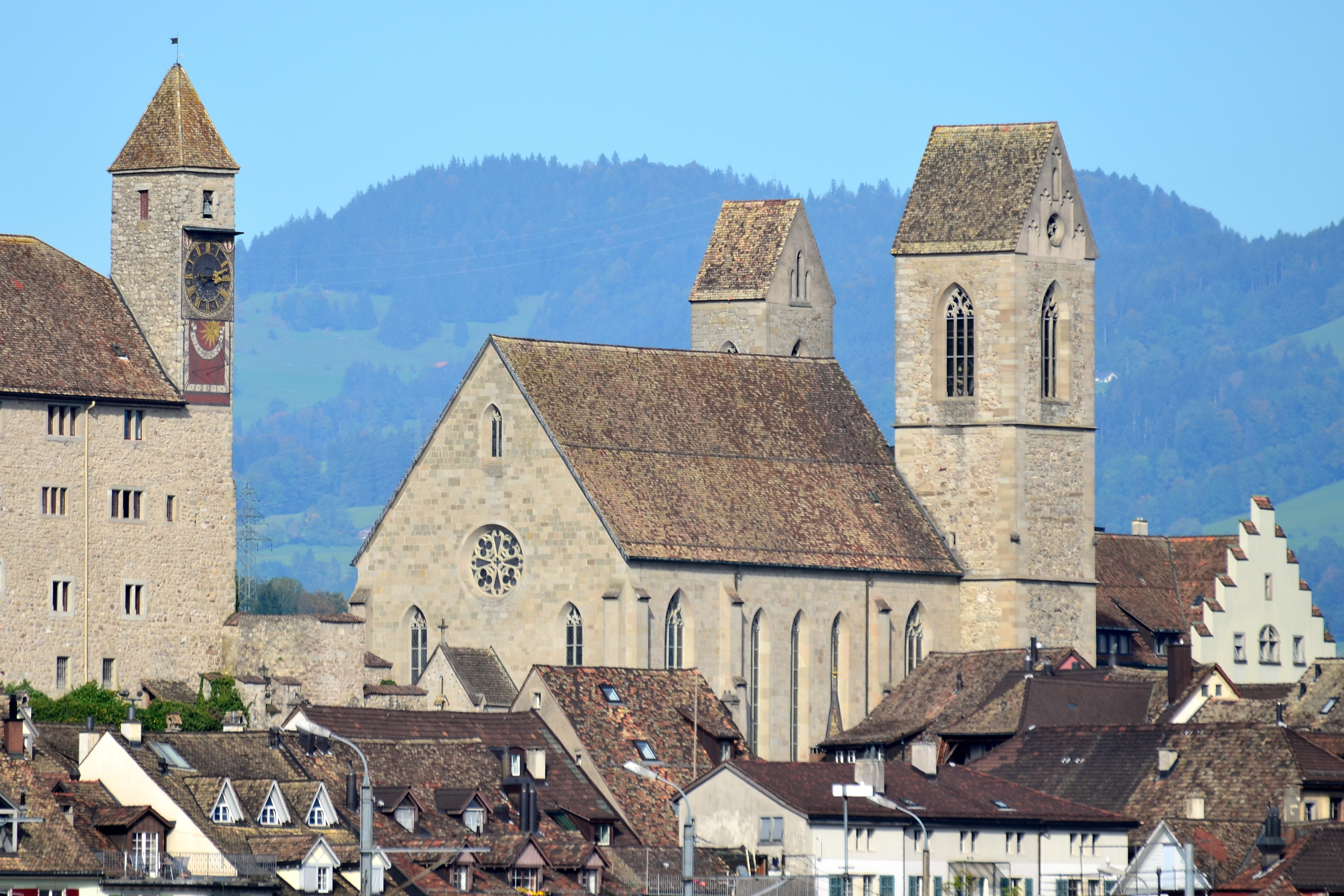 Rapperswil (Switzerland) : Rapperswil castle, Altstadt and St. John's Church, as seen from Holzbrücke crossing Obersee (upper Lake Zurich) between Rapperswil and Hurden, the so-called Seedamm area in the foreground to the left.